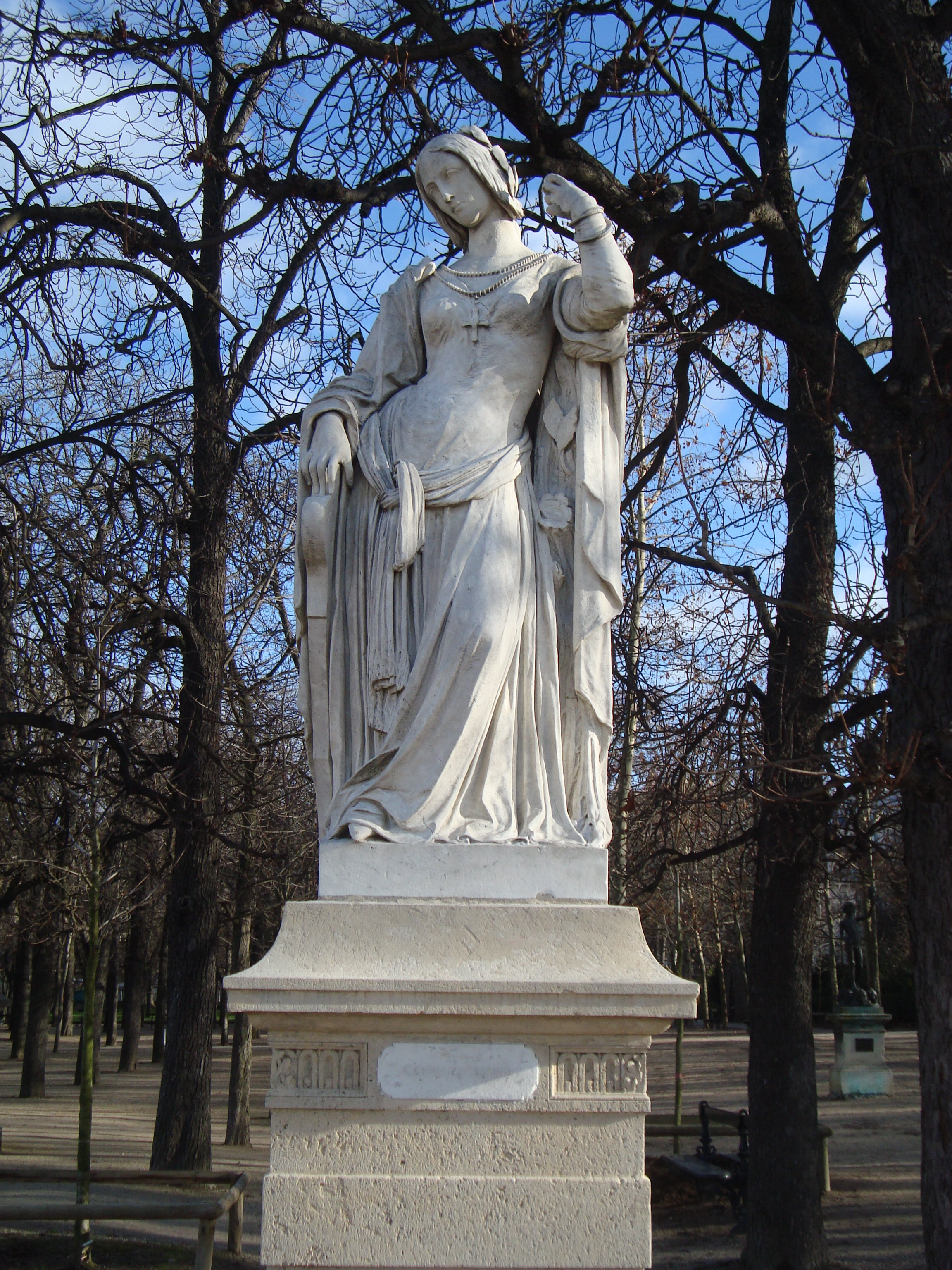 Statue of Clémence Isaure in the Jardin du Luxembourg, Paris